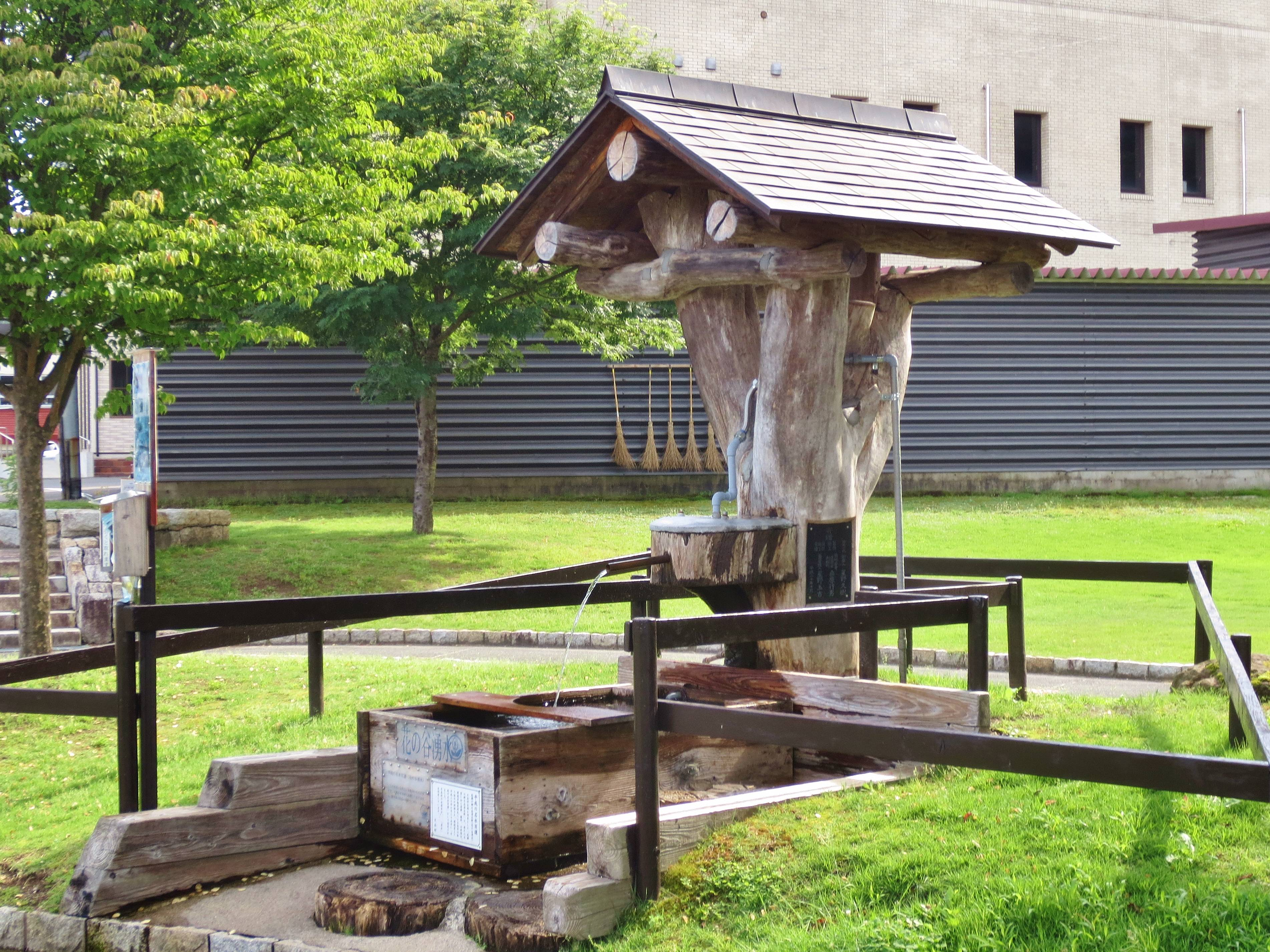 Hananotani Yusui.